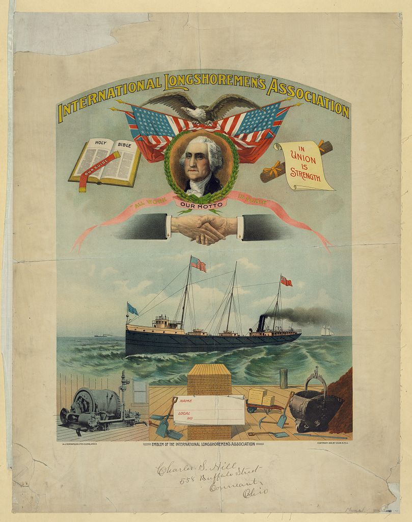 Emblem of the International Longshoremen's Association (USA)